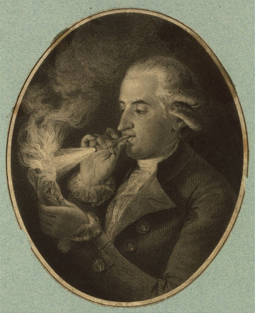 French balloonist Jean-François Pilâtre de Rozier (1754-1785) blowing hydrogen gas into a flame.